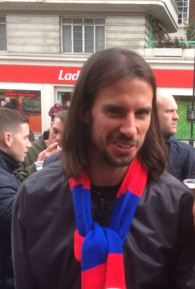 George Boyd Attending FA Cup semi final 2016 Crystal Palace vs Watford.